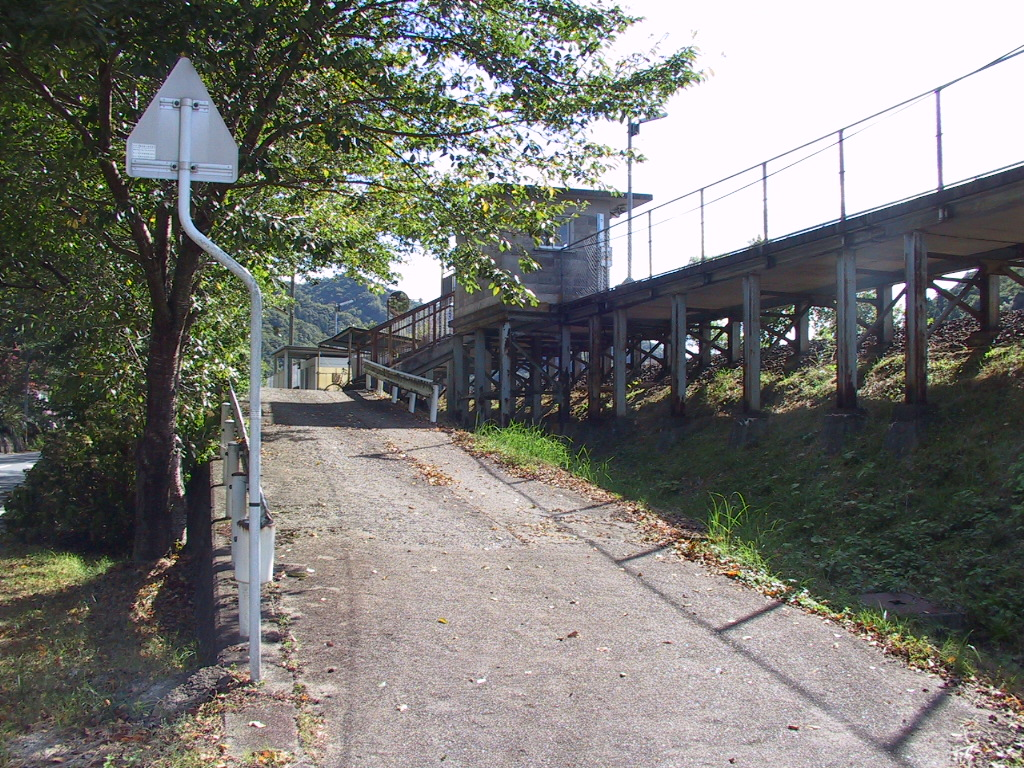 Ushio Station on Sanko Line